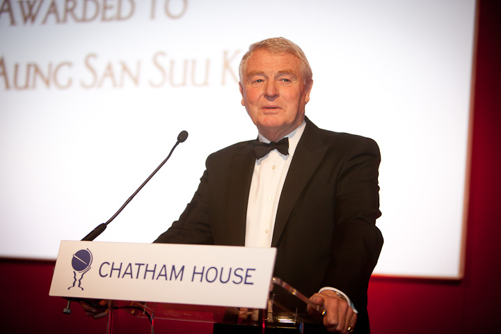 Chatham House Prize, 1 December 2011